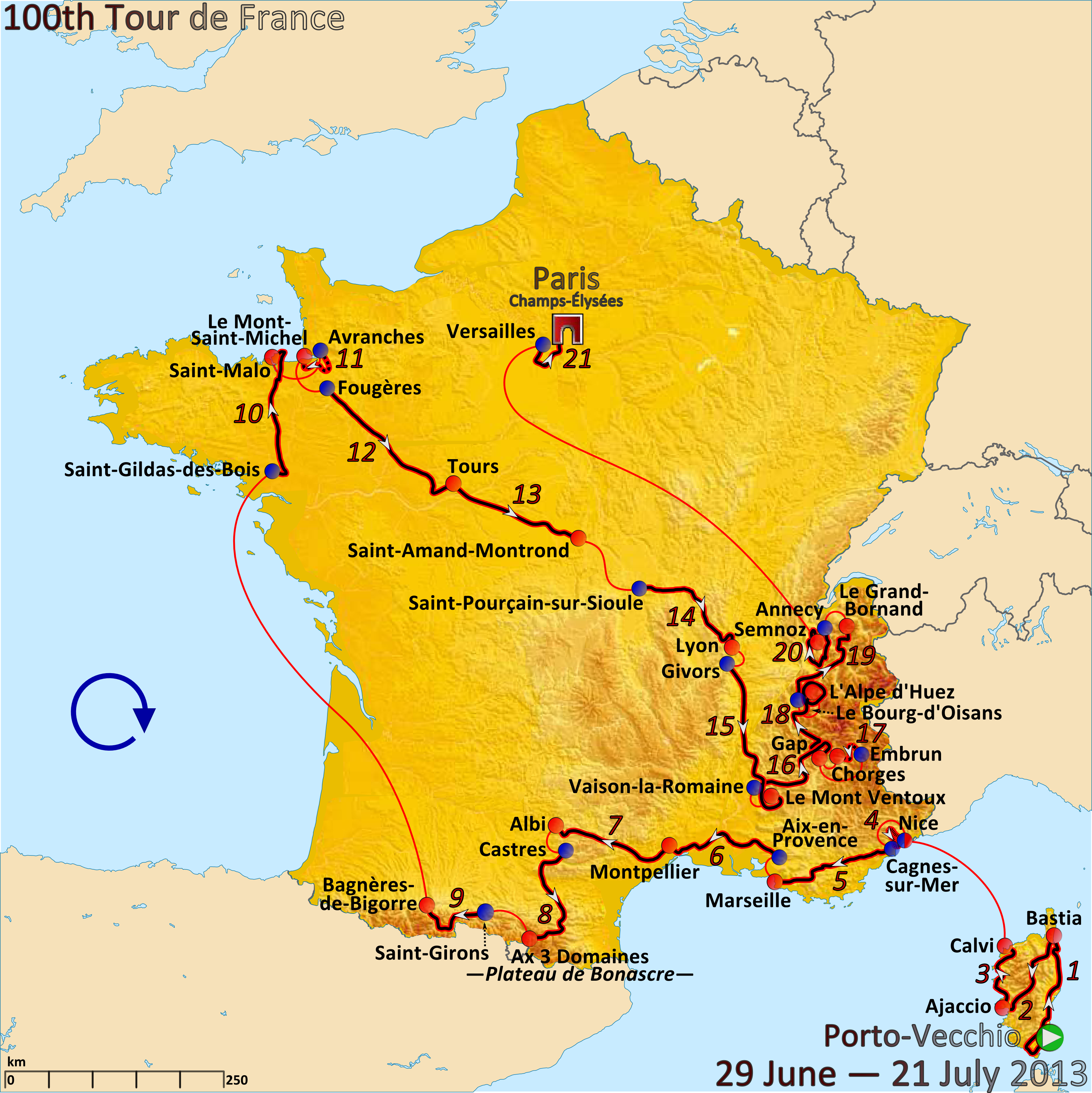 Map of the 2013 Tour de France created in Inkscape